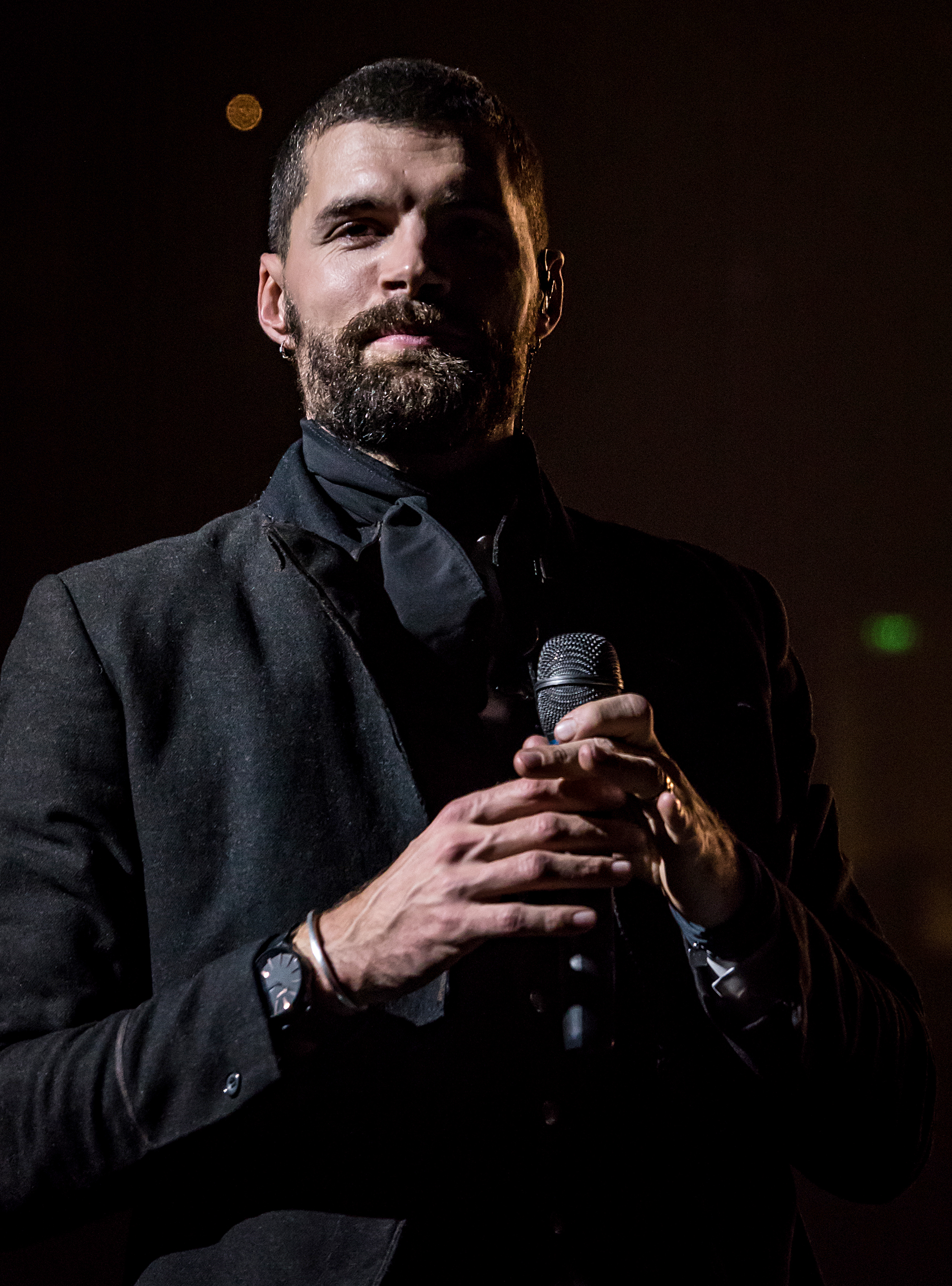 Original description: For King & Country performing live at Christian radio station 95.9 FM The Fish's Christmas Concert, at the Honda Center in Anaheim, California, on Friday, December 16, 2016.